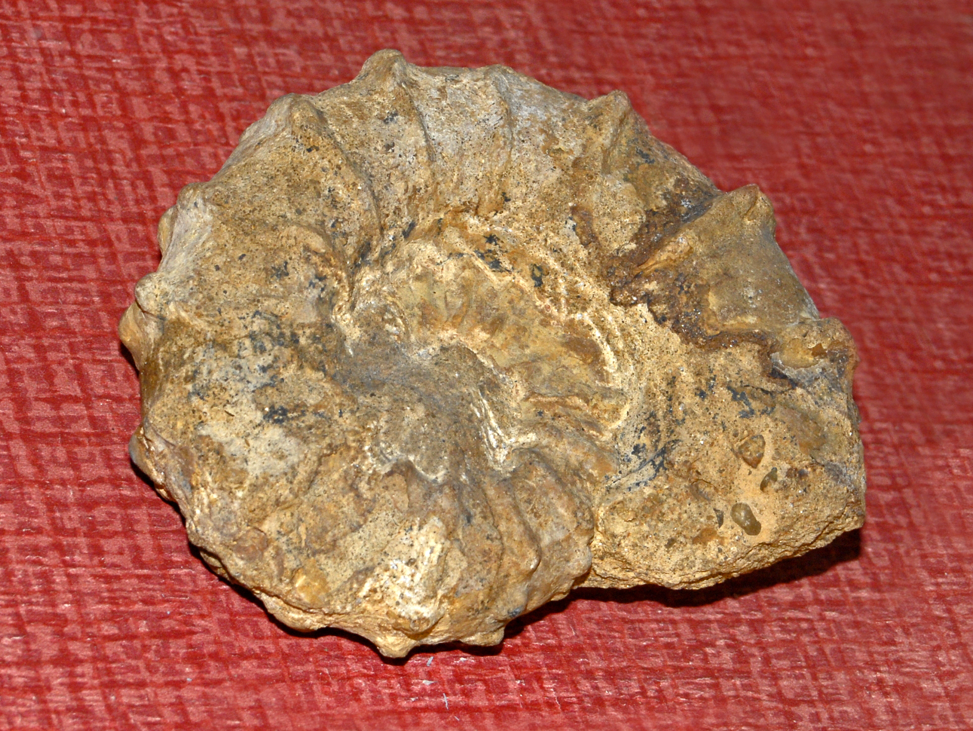 Fossil shell of Kossmaticeras species from Madagascar, on display at Gallery of Paleontology and Comparative Anatomy, Paris.